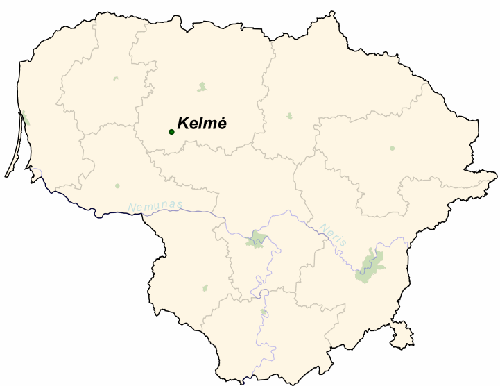 Kelmė on the map of Lithuania